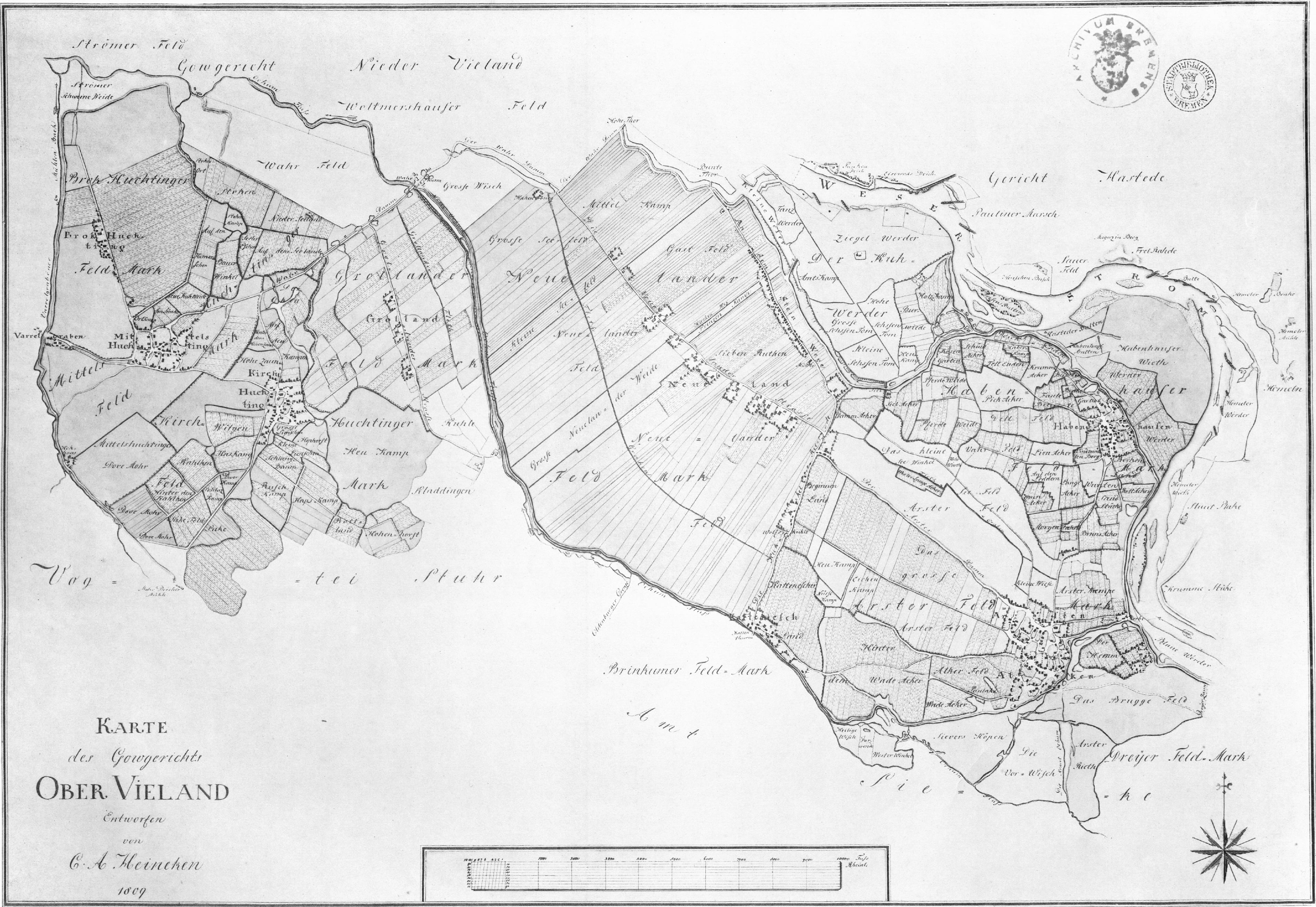 Original title: Map of the Juridical District of Ober Vieland, outlined by C. A. Heineken, 1809